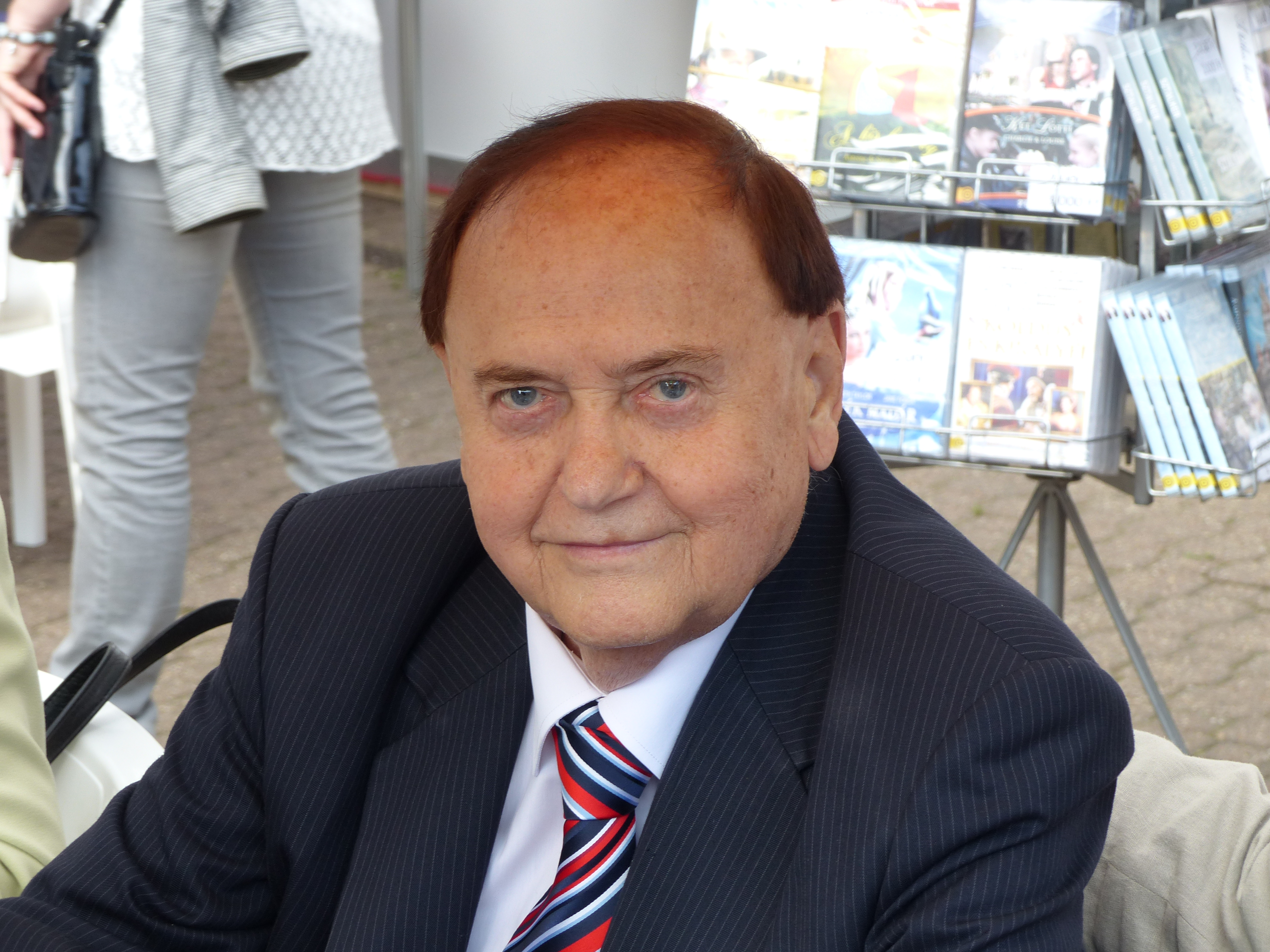 Torgyán József. Taken on the 10th of June, 2016. Vörösmarty tér, Downtown Budapest. 87. Ünnepi Könyvhét.